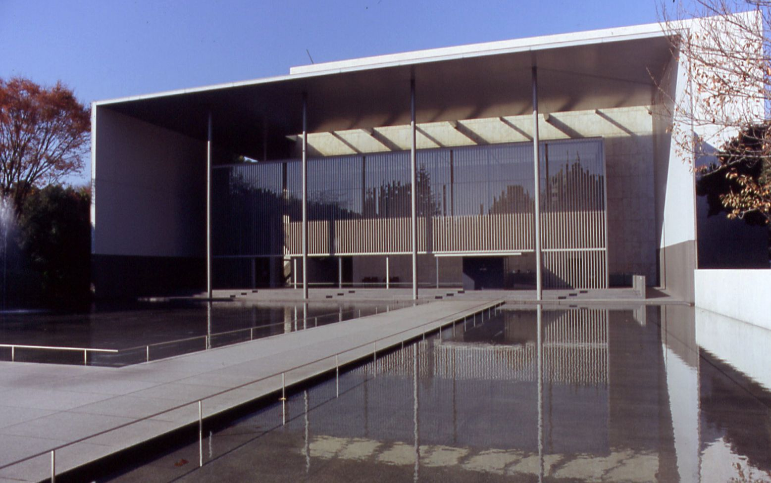 Taniguchi Yoshio: Horyu-ji Gallery in the TNM, 1999, Tokyo